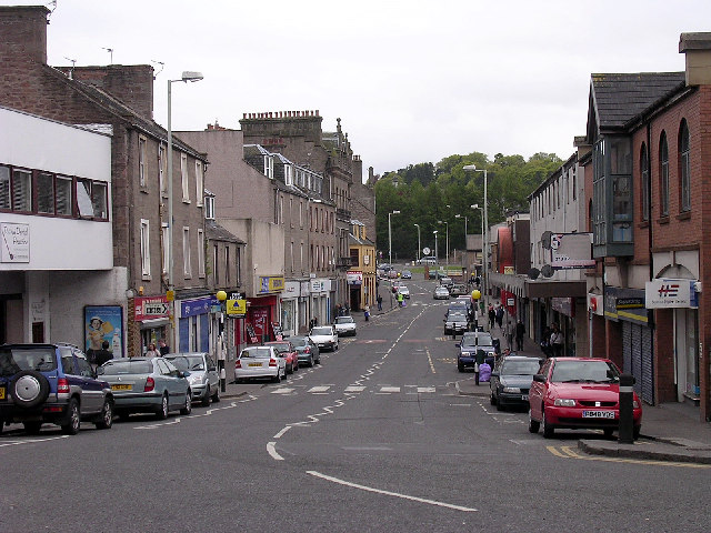 Looking south down Lochee High Street from the junction with Bright & Methven streets. For many years a separate town, Lochee developed during the 18th Century in association with handloom weaving and in the 19th century as a centre of spinning, bleaching, dyeing and linen manufacture. By the late 19th century, many of the linen mills were producing jute.